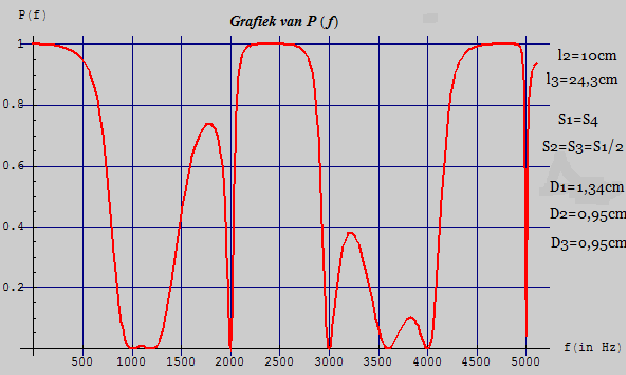 Improved and corrected diagram of the power transmission ratio of the Quincke tube (see Figure 3.9, page 92 in G. Stewart & R. Lindsay, Acoustics, D. Van Nostrand Comp.Inc.,1930, New York). The graphics were obtained after calculation using the Mathematica 4.1 (Wolfram) program.